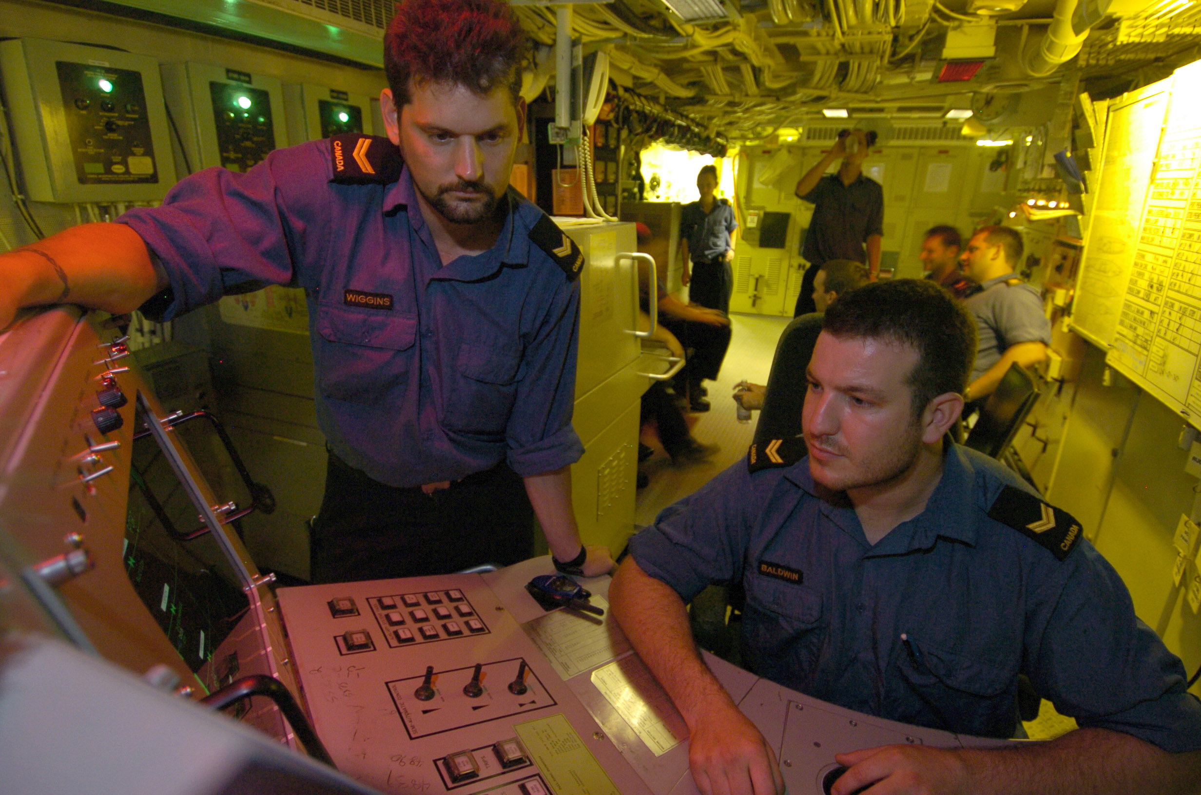 060714-N-8629M-163 Pacific Ocean (July 14, 2006) - Leading Seaman Kerry Wiggins trains Leading Seaman Joe Baldwin to become a Machine Control Console Operator (MCCO) in the Machinery Control Room aboard HMCS Algonquin (DDG 283). Algonquin is at sea in support of exercise Rim of the Pacific (RIMPAC).Eight nations are participating in RIMPAC, the world's largest biennial maritime exercise. Conducted in the waters off Hawaii, RIMPAC brings together military forces from Australia, Canada, Chile, Peru, Japan, the Republic of Korea, the United Kingdom and the United States